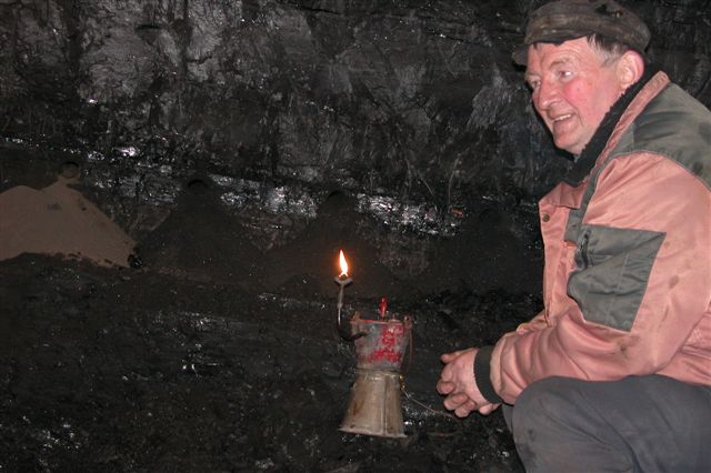 Carbide of Calcium lamp in a coal mine, Hvalba, Faroe Islands